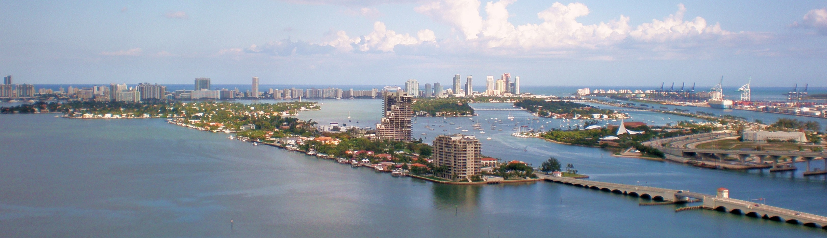 Digital photo taken by Marc Averette. View of the Venetian Causeway in Biscayne Bay with South Beach in the background and Watson Island, Florida to the right.